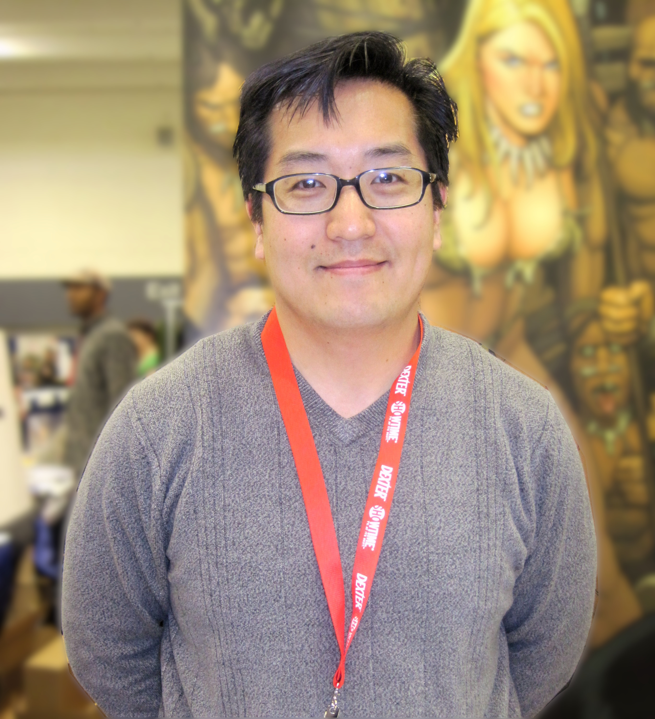 Frank Cho at WonderCon 2010